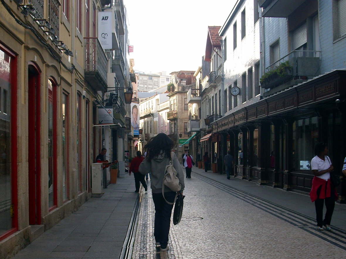 Junqueira traditional shopping street in Povoa de Varzim Portugal, near the Gomes Goldsmithery (building on the left with wood facade. One of the most prestigious goldsmithery in Portugal, and producers of jewels for the Dukes of Bragança (Portuguese royalty).